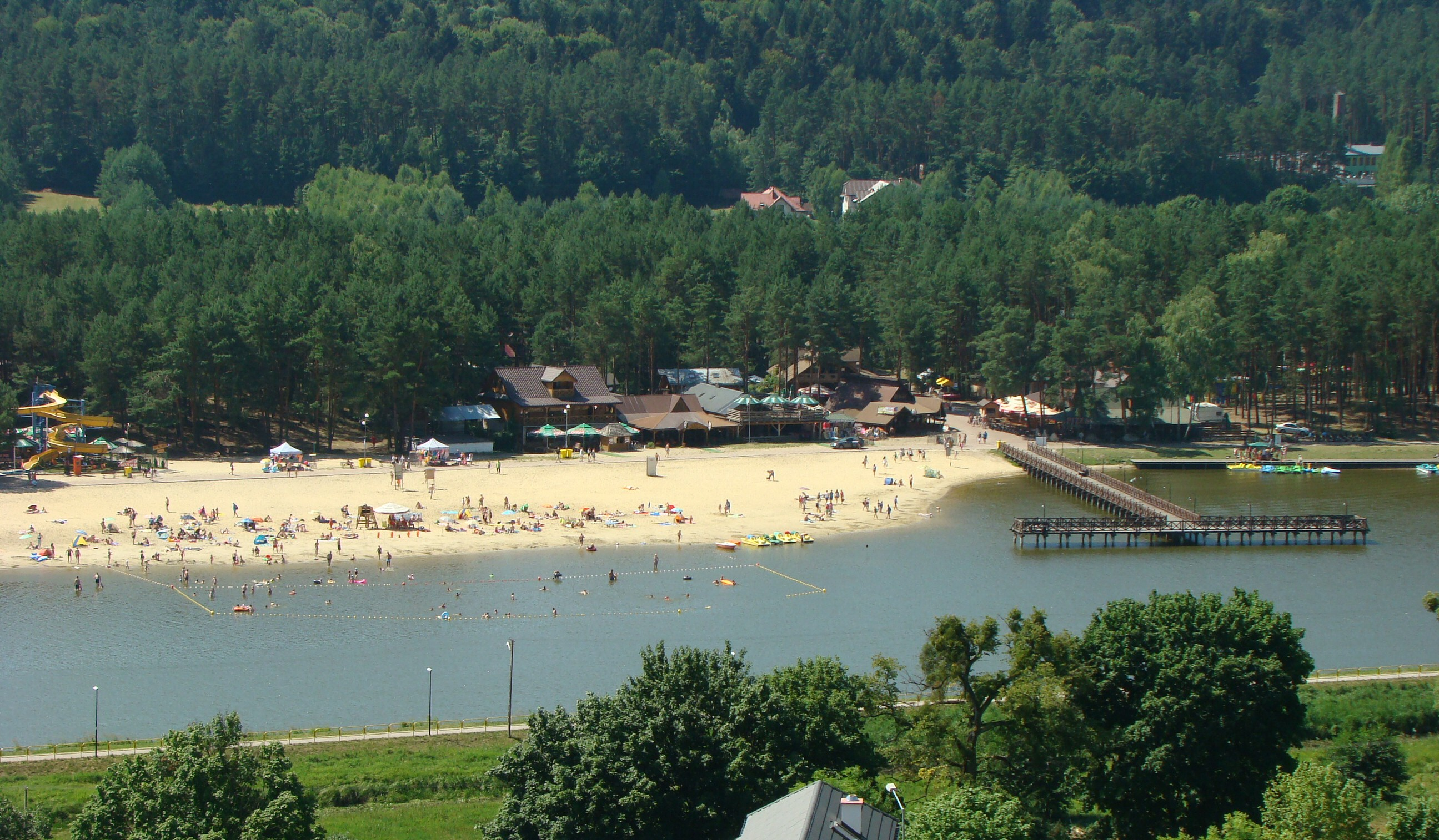 Lake in Krasnobród seen from a view tower